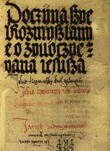 First page of polish "Rozmyślanie przemyskie" manuscript from 16th century.